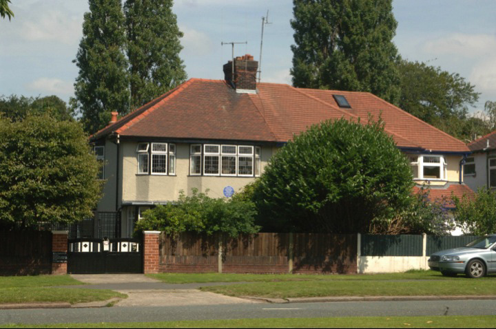 John Lennon's childhood home where he was raised by his aunt and uncle after the death of his mother.